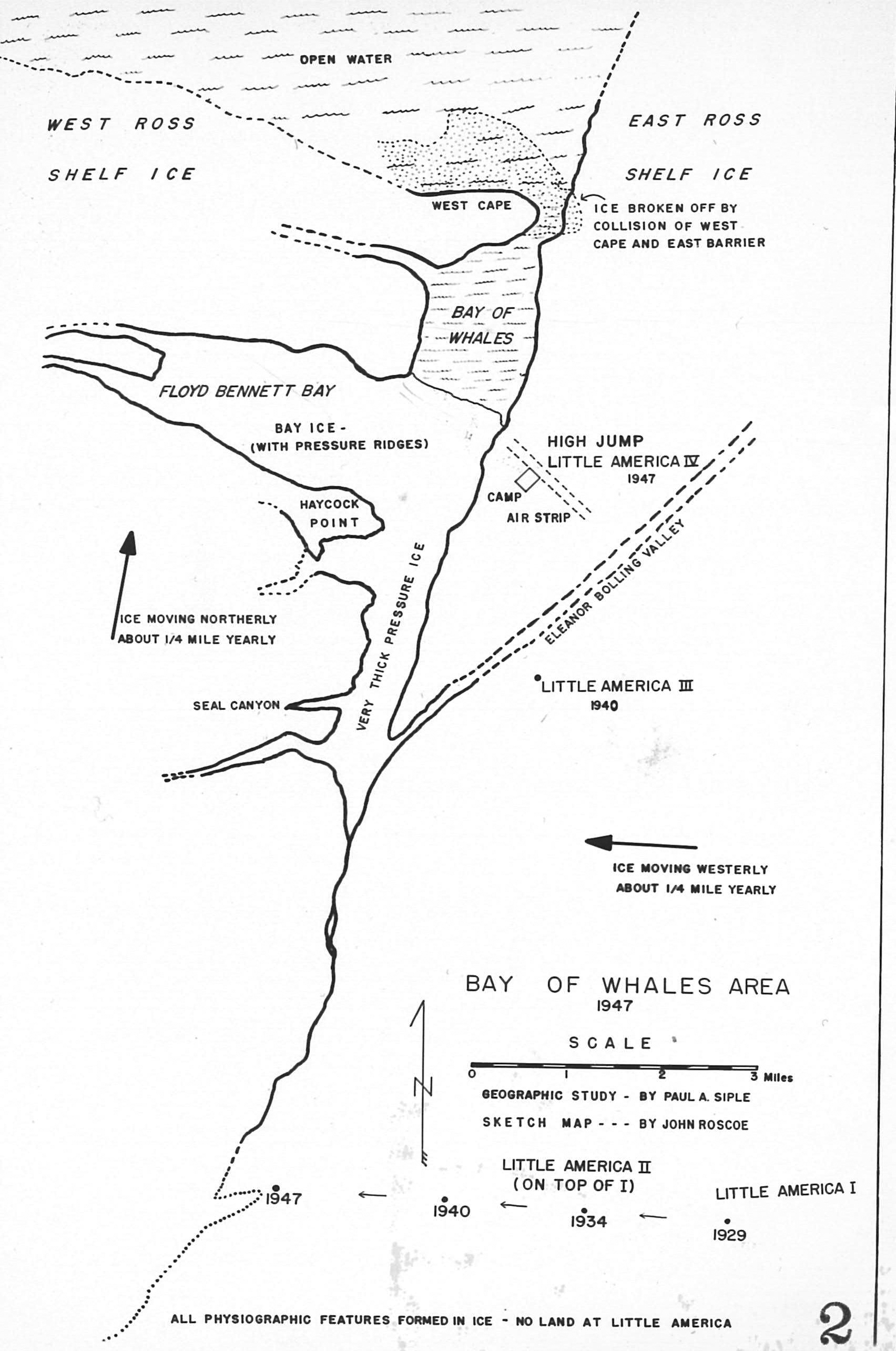 A map illustrating the locations of Little America I, II, III, and IV